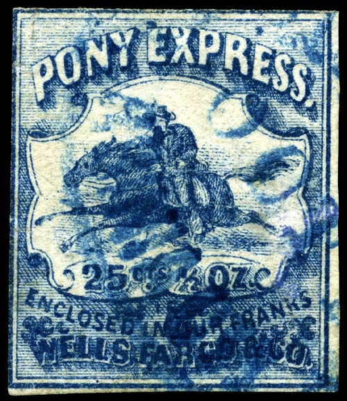 Pony Express 25c stamp, used at Virginia City